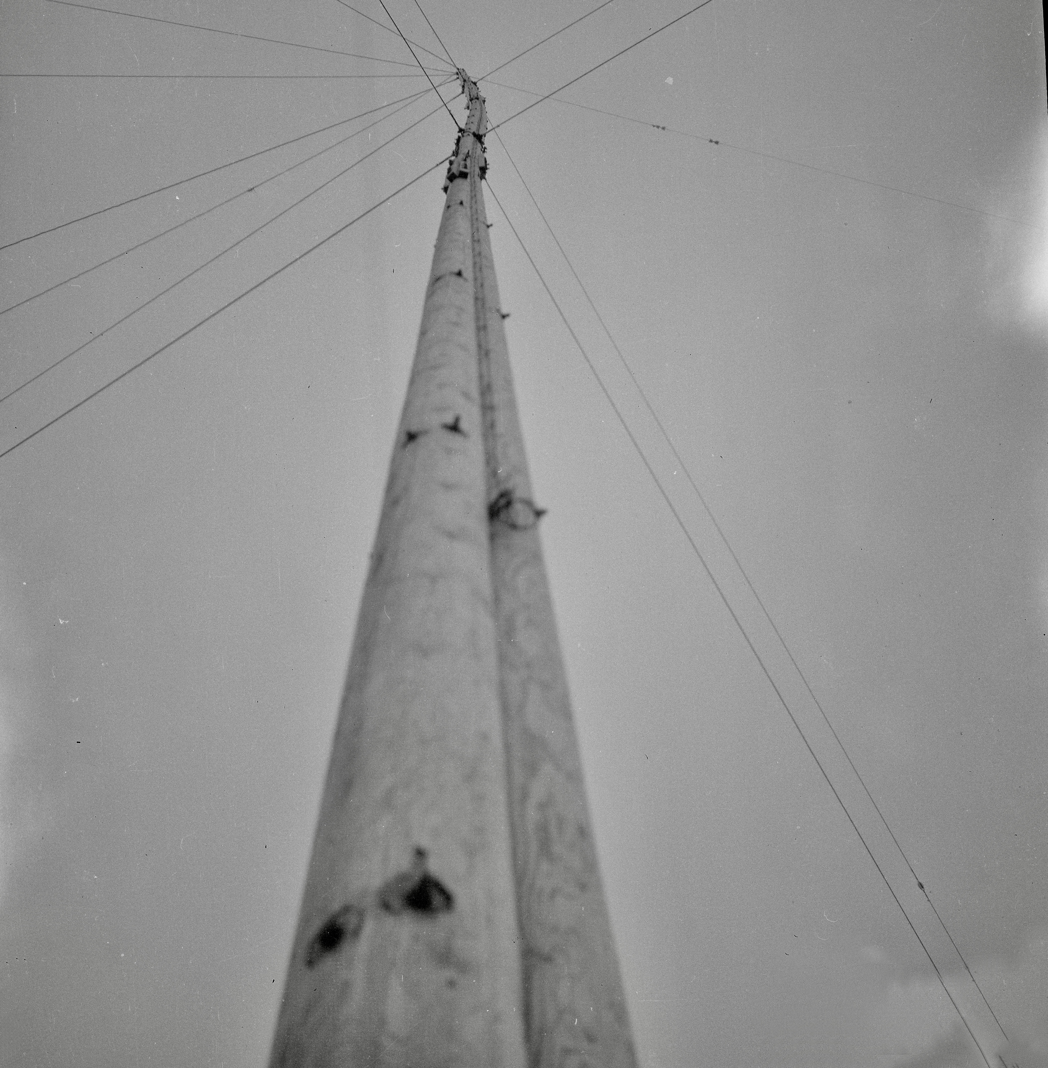 60 metre tall wooden radio mast at Aunus Radio during World War II.